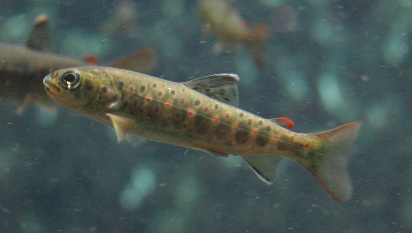 Salmo Trutta trutta